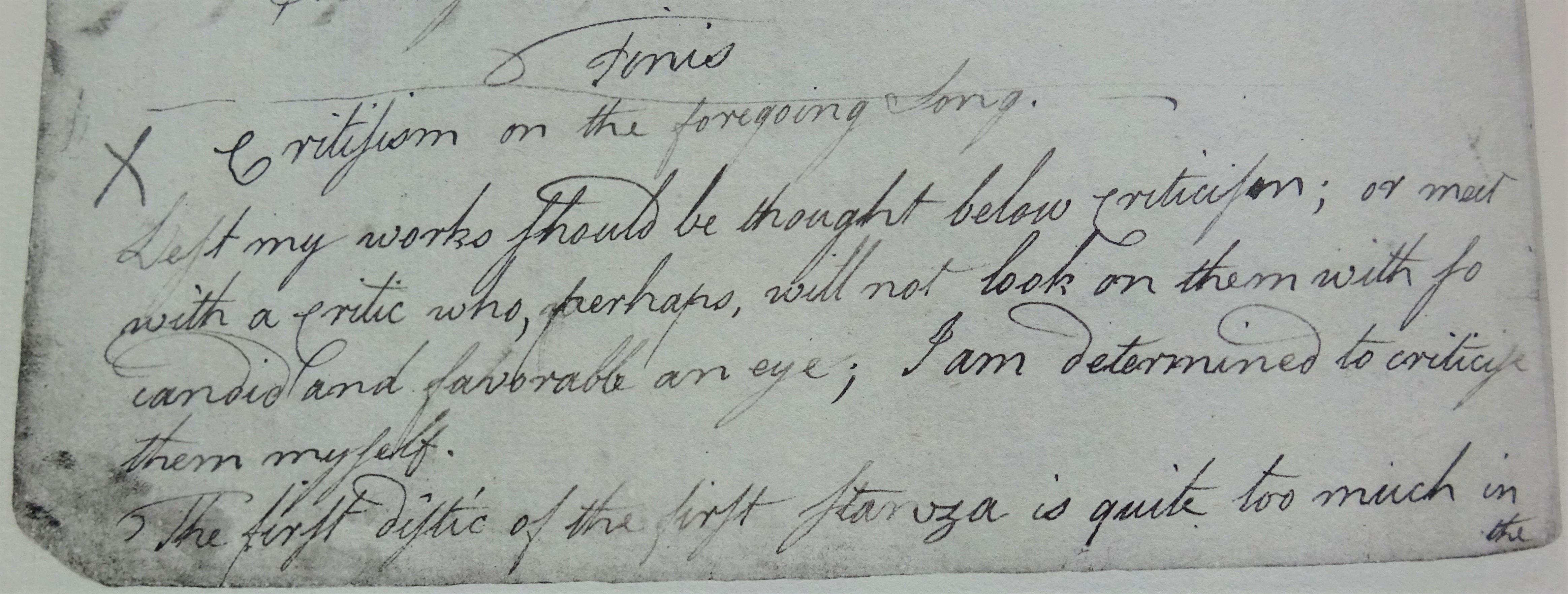 Burns's self criticism on his song "Once I Lov'd a bonny Lass", Robert Burns's Commonplace Book 1783 - 1785. Page 4.